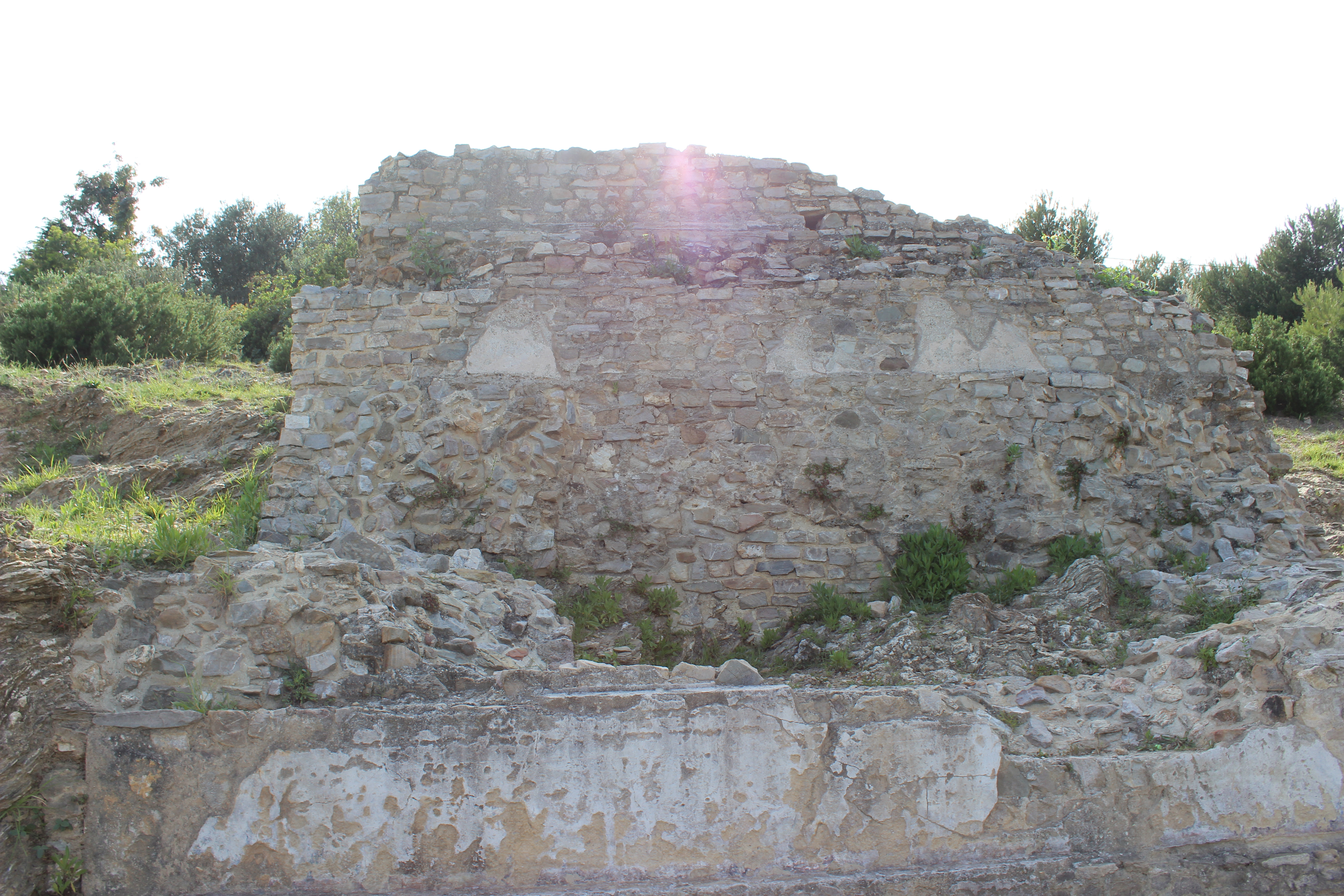 Wall of the roman's necropolis on the old Julia Augusta road, in Albenga, near the roman's amphitheater.